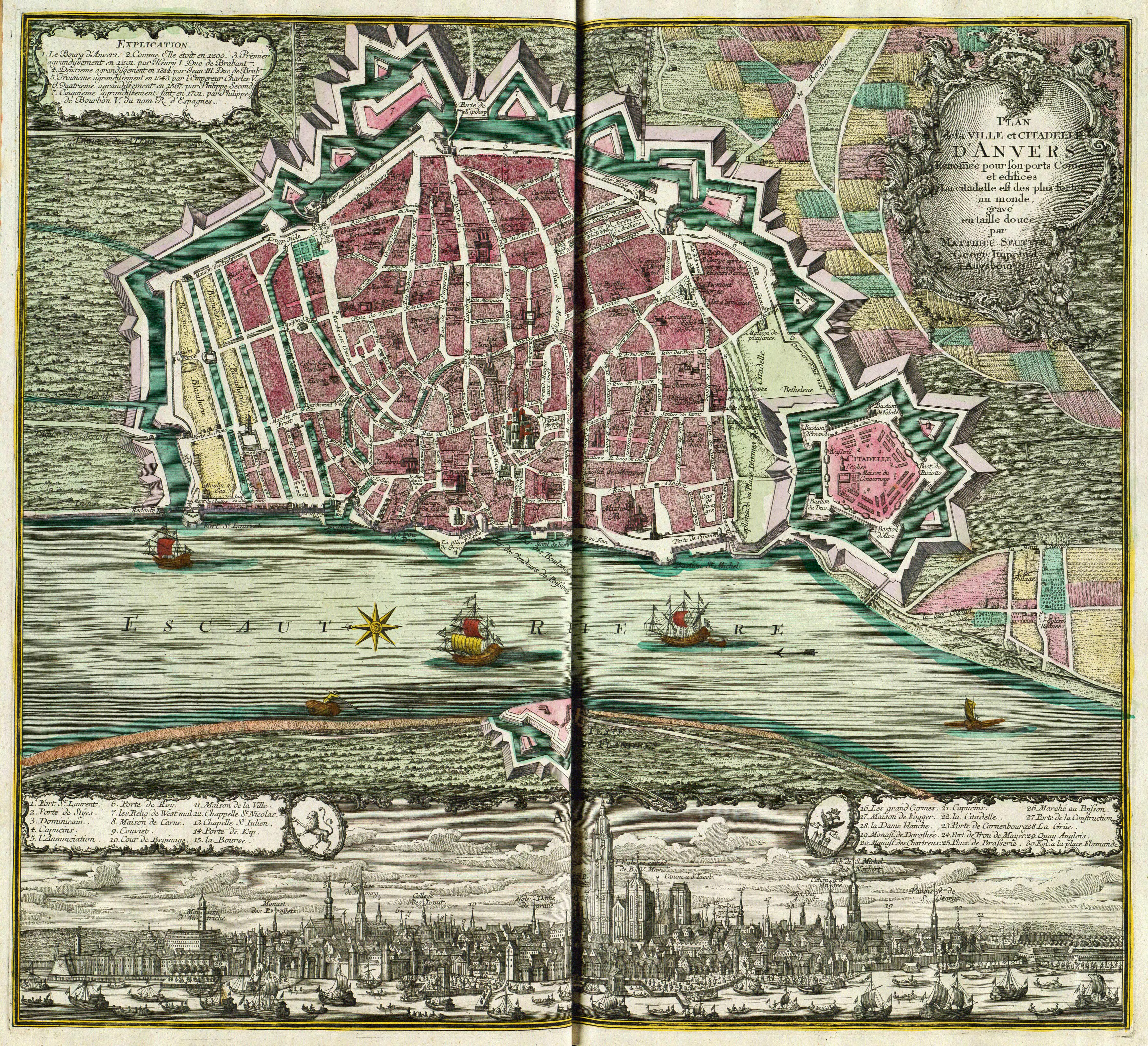 Cityplan & Panoramic view of Antwerp